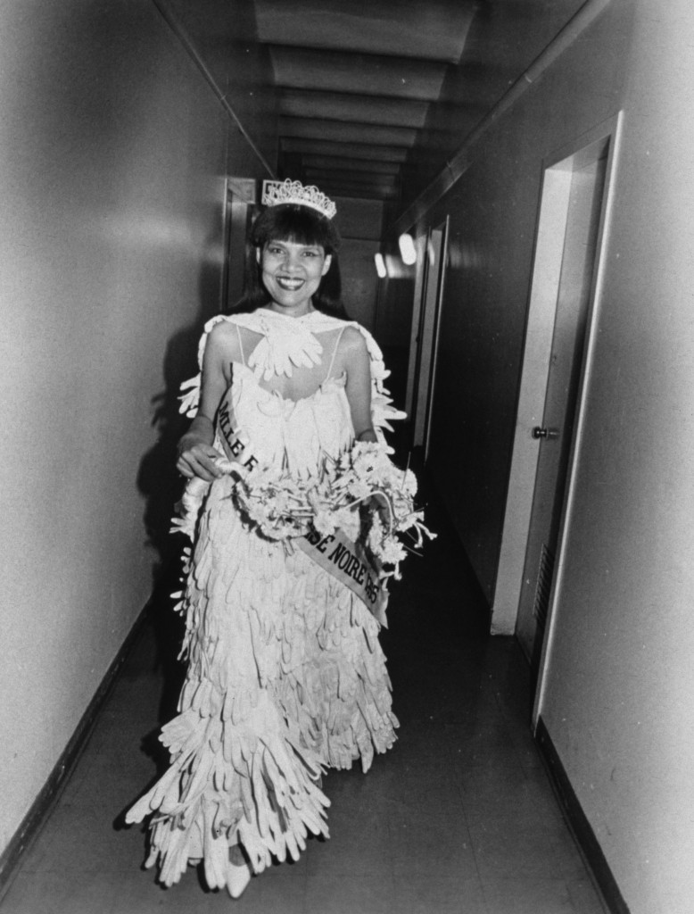 Mlle Bourgeoise Noire (New Museum performance, 1981)